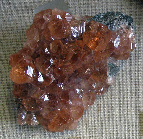 Crust of striated hessonite (grossular) crystals from Asbestos, Quebec. Photograph taken at the Natural History Museum, London.